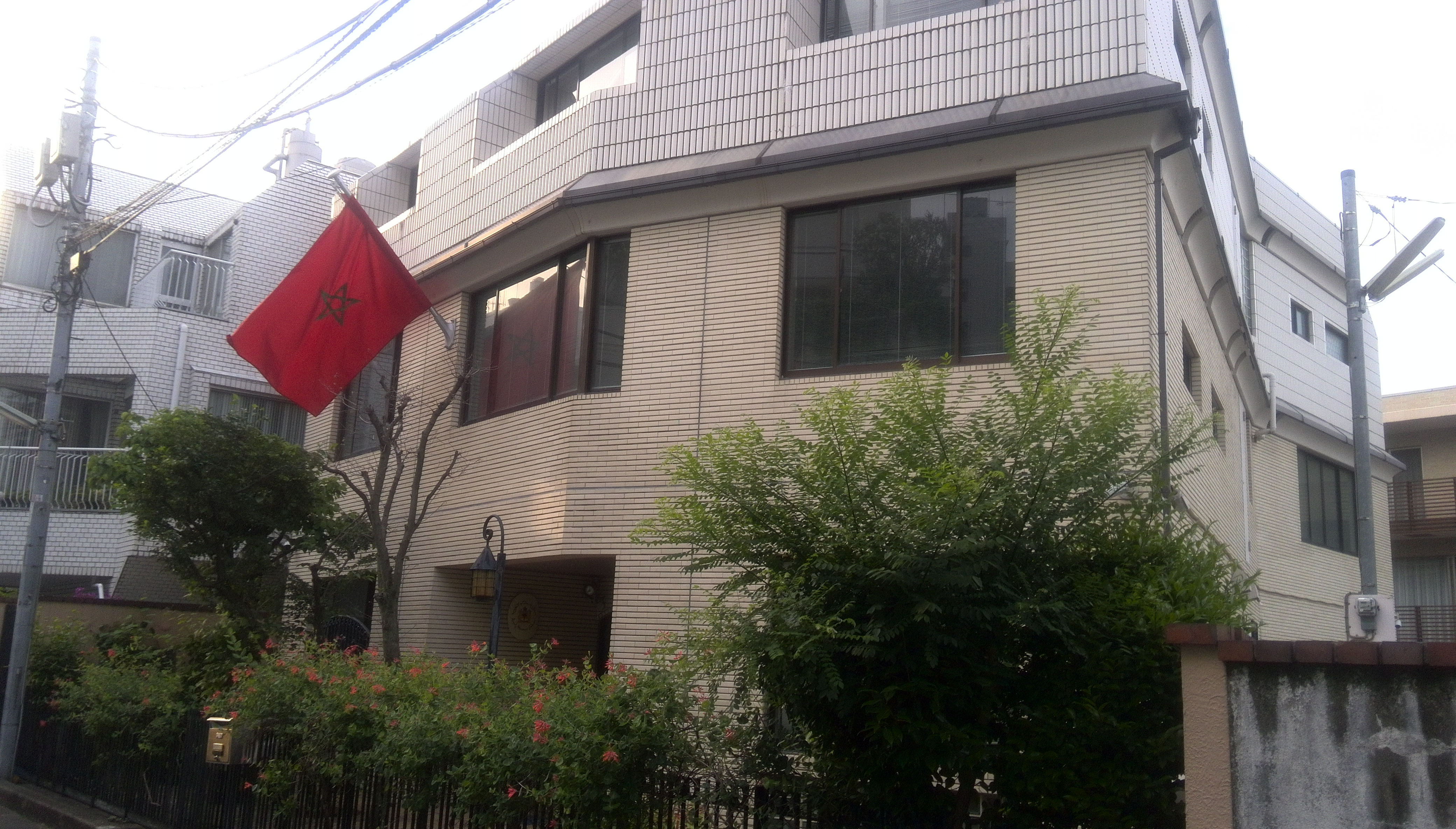 Embassy of Morocco in Tokyo